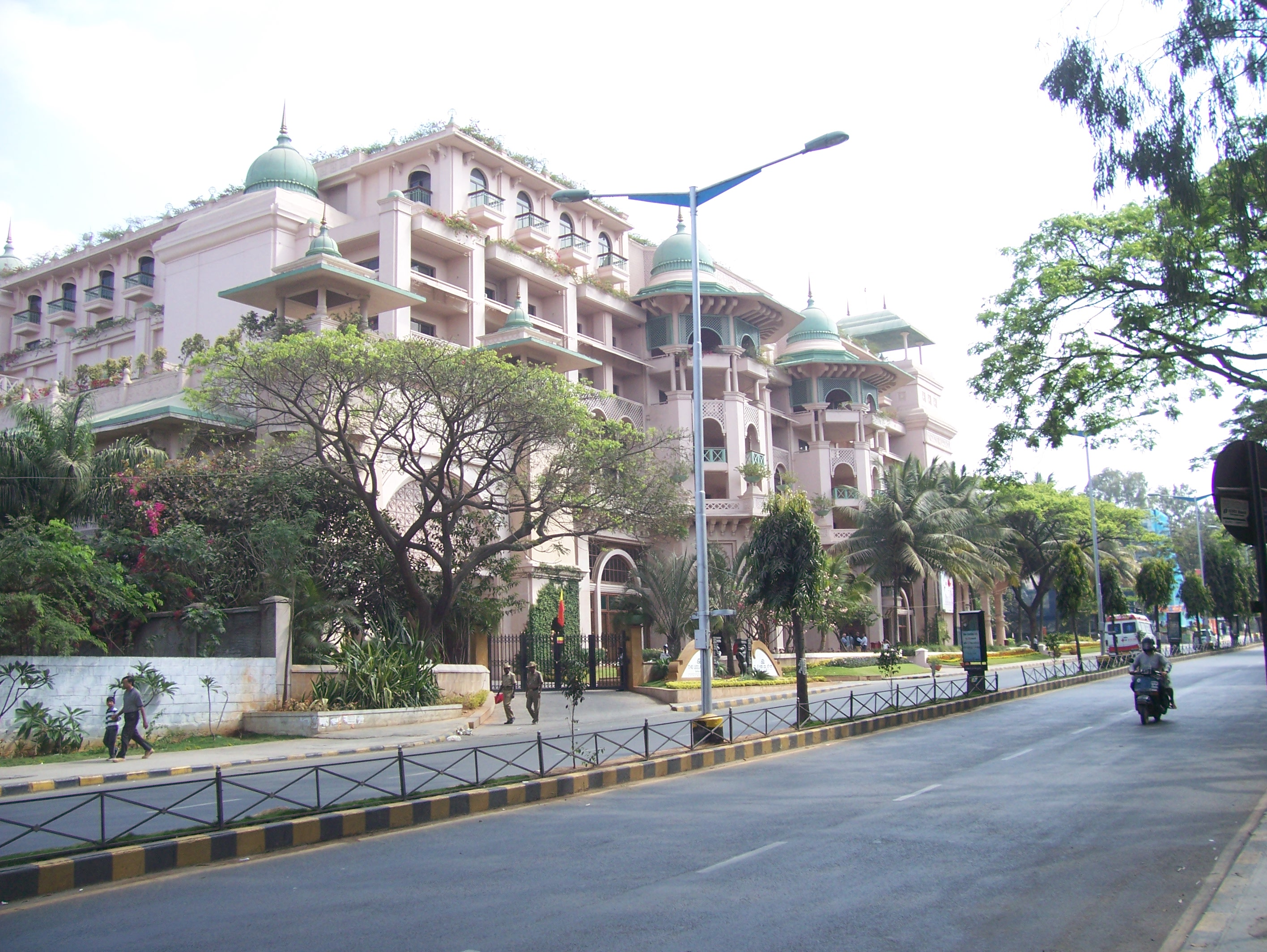 The Leela Palace Bangalore viewed from Airport Road (now Madivala Machideva Road), Bengaluru, India